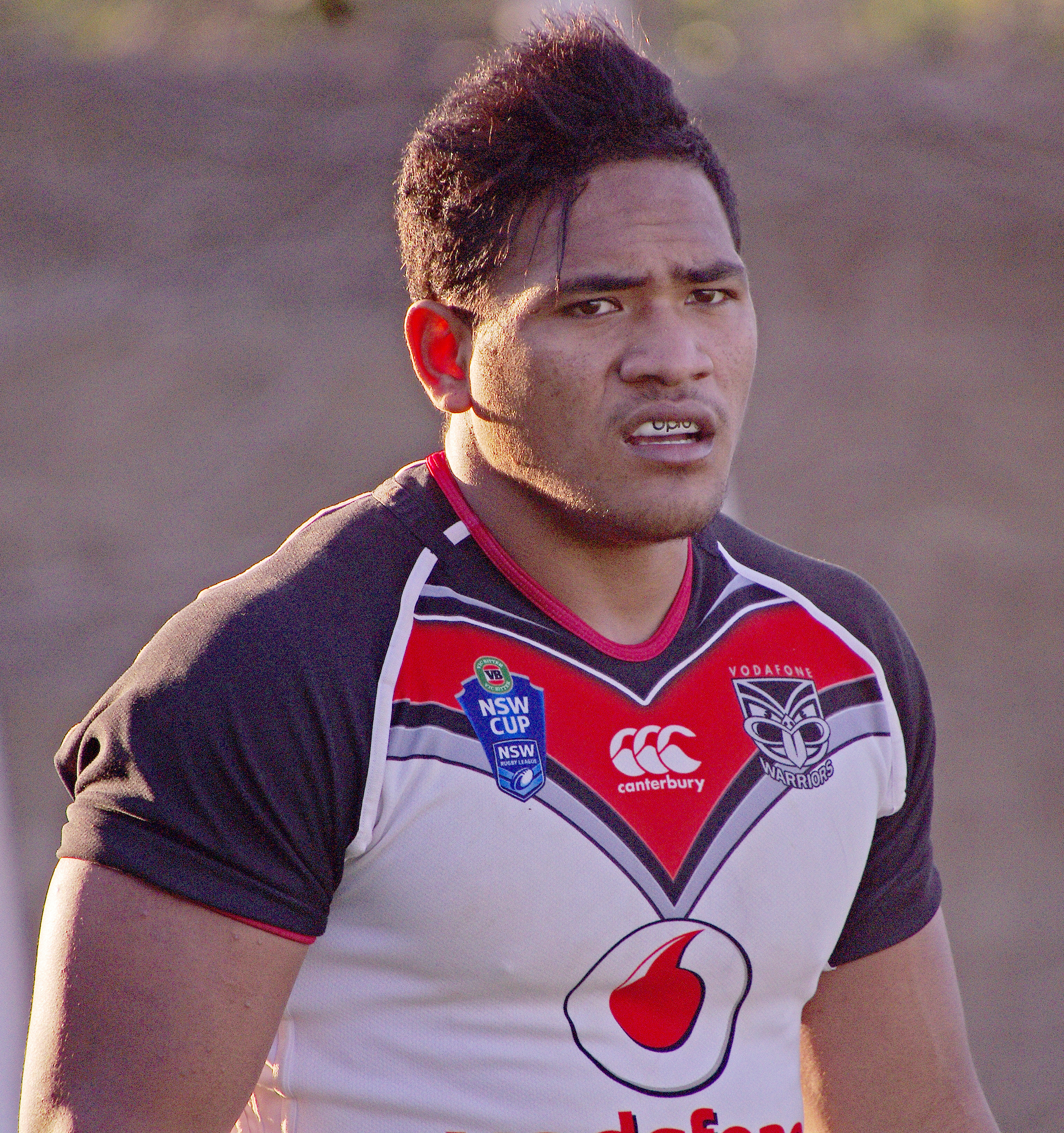 Solomone Kata